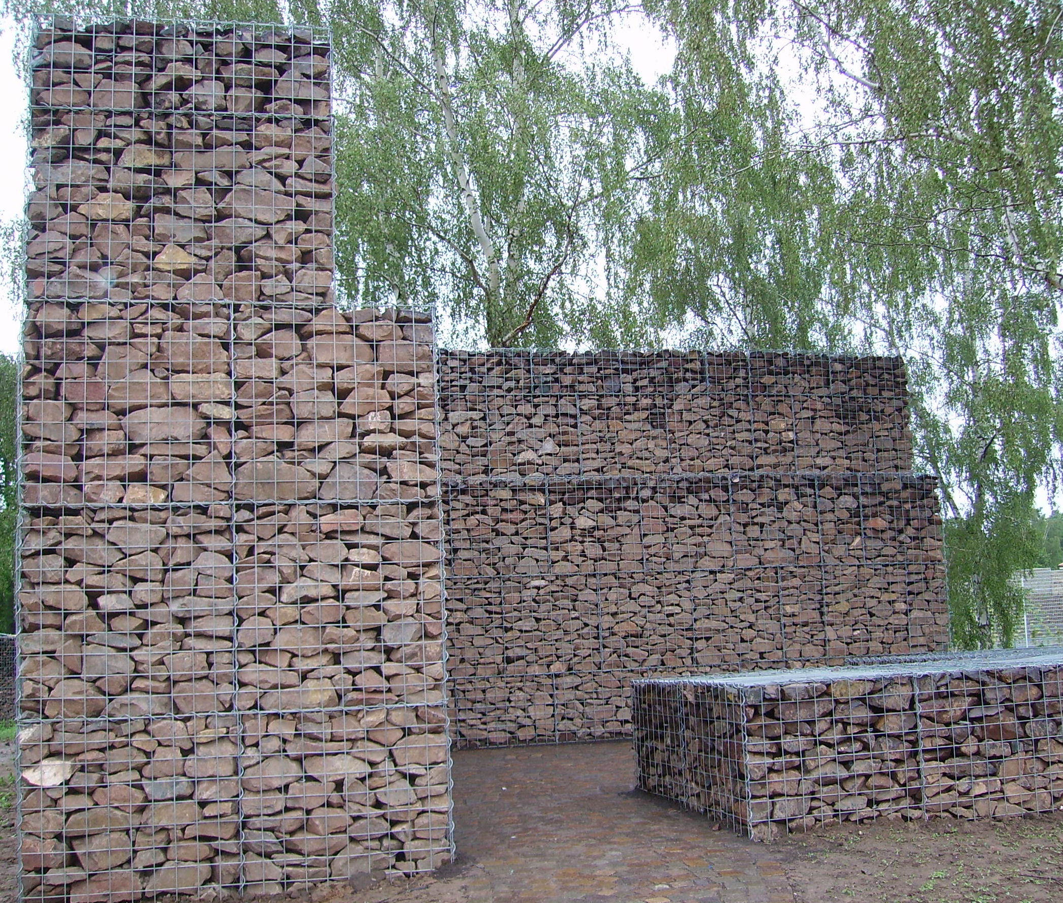 view of Alsenborn, Germany